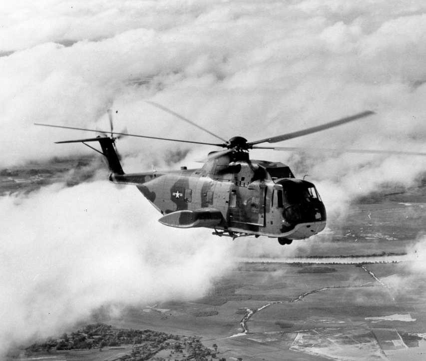 A U.S. Air Force Sikorsky CH-3C Jolly Green Giant in flight over Vietnam, circa 1968. In April 1968 three Coast Guard helicopter pilots were assigned to the 37th Aerospace Rescue and Recovery Squadron at Da Nang. Pilots were assigned there until November 1972, while their USAF counterparts were assigned to stateside Coast Guard air stations.